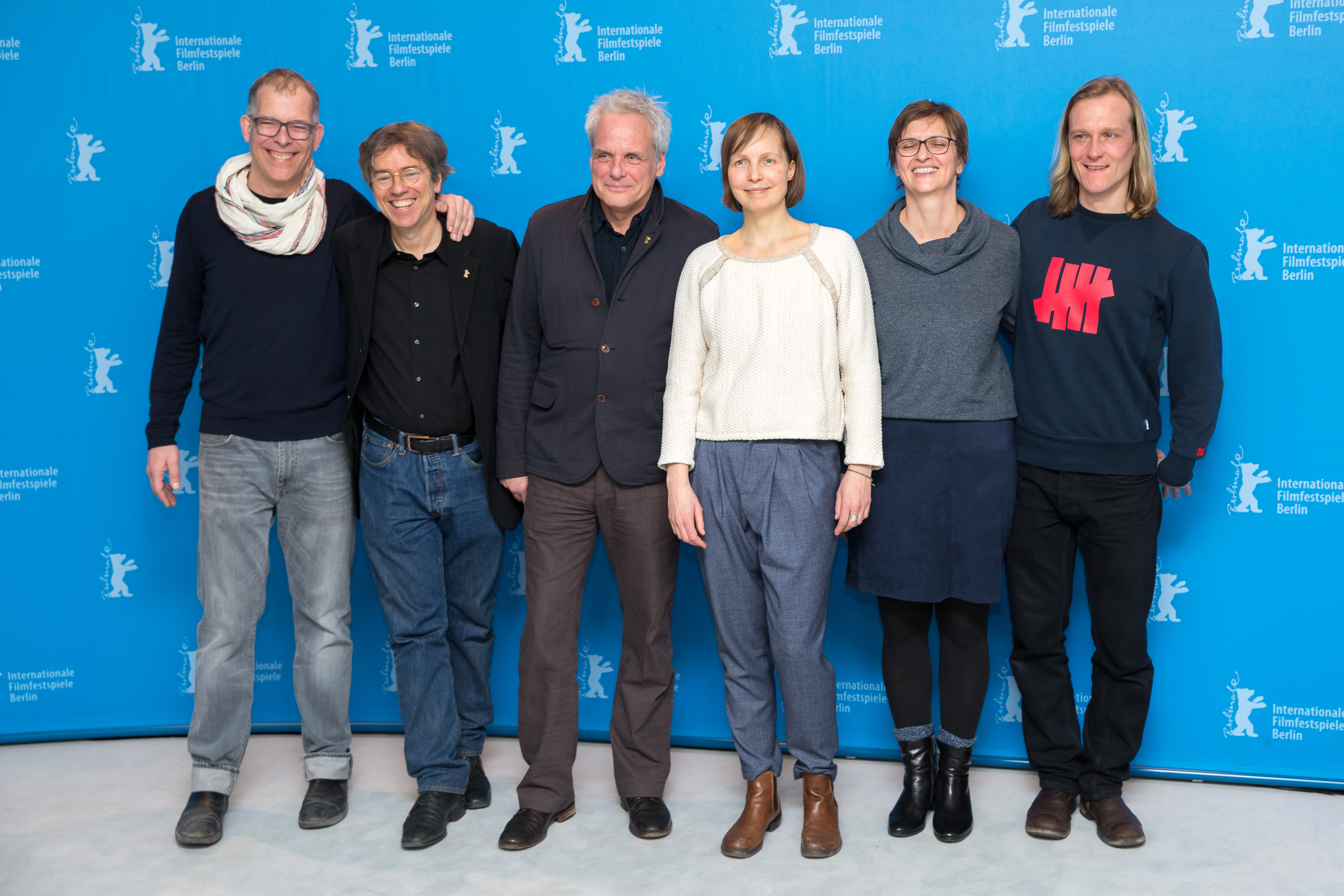 Editor Stephan Krumbiegel, director and screenwriter Andres Veiel, the producers Thomas Kufus and Melanie Berke, researcher Monika Preischl and editor Olaf Voigtlander, the film team of Beuys, Berlinale 2017